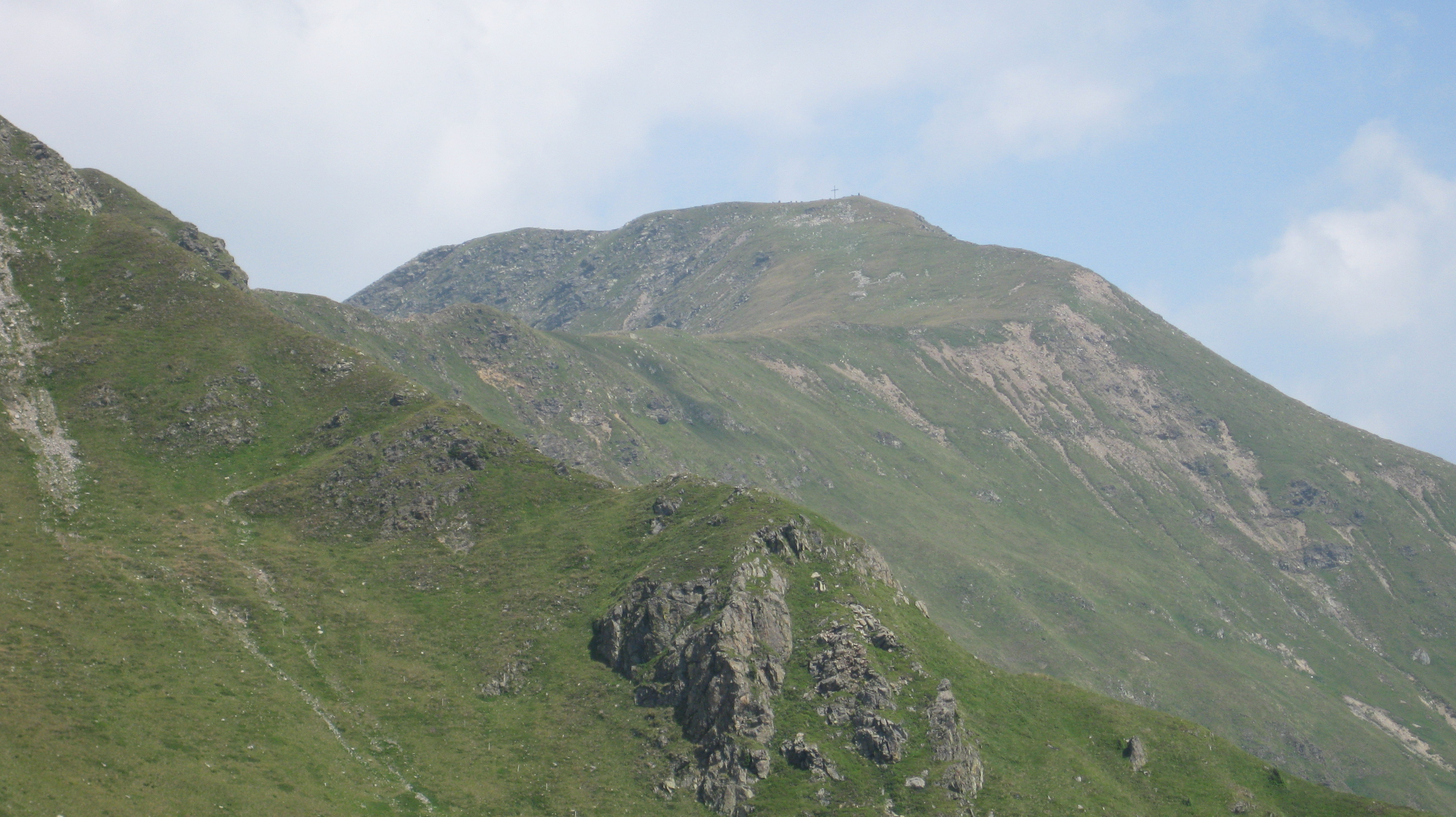 Zinseler (Cima di Stilves), 2422 m, mountain in Italy. It is located in Trentino - South Tyrol, near the City of Sterzing (Vipiteno). View from the path between Huehnerspiel and the peak.